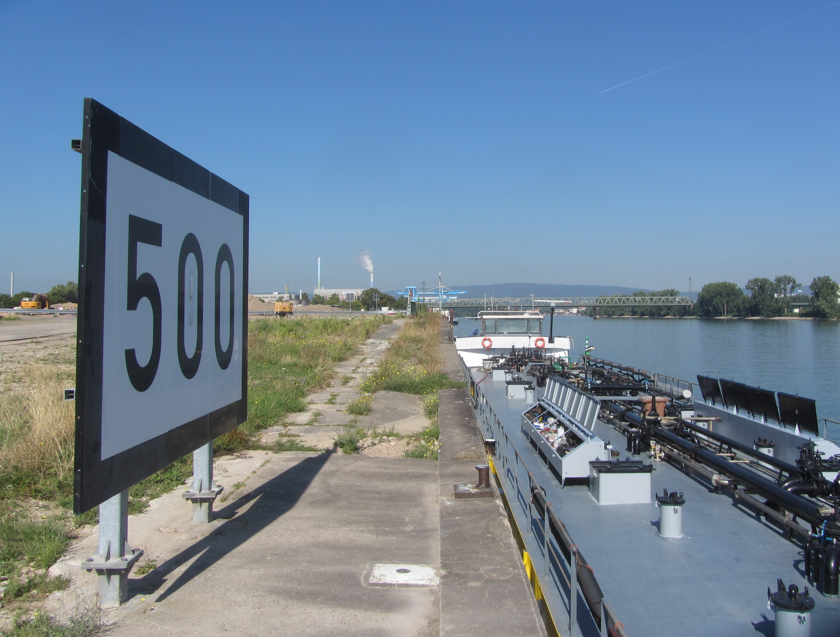 Rhine kilometer 500 at the Port of Mainz